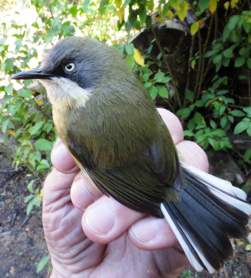 Bar-throated apalis mistnetted at Woodbush, Limpopo. It has a black throat band which is obscured by the throat feathers here.